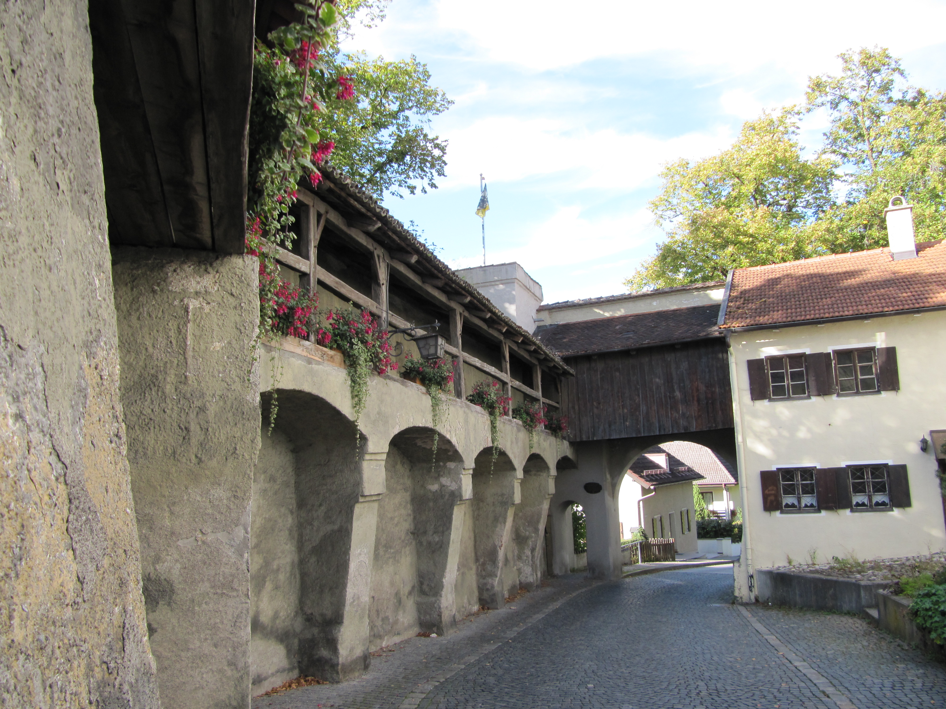 Gate in Schongau with city walls